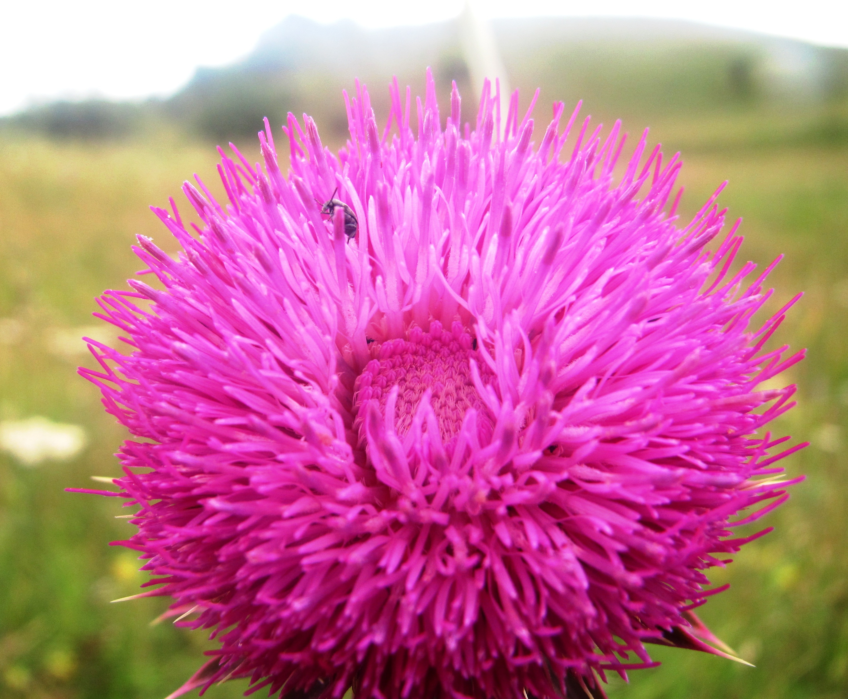 Cardueae from Azerbaijan.